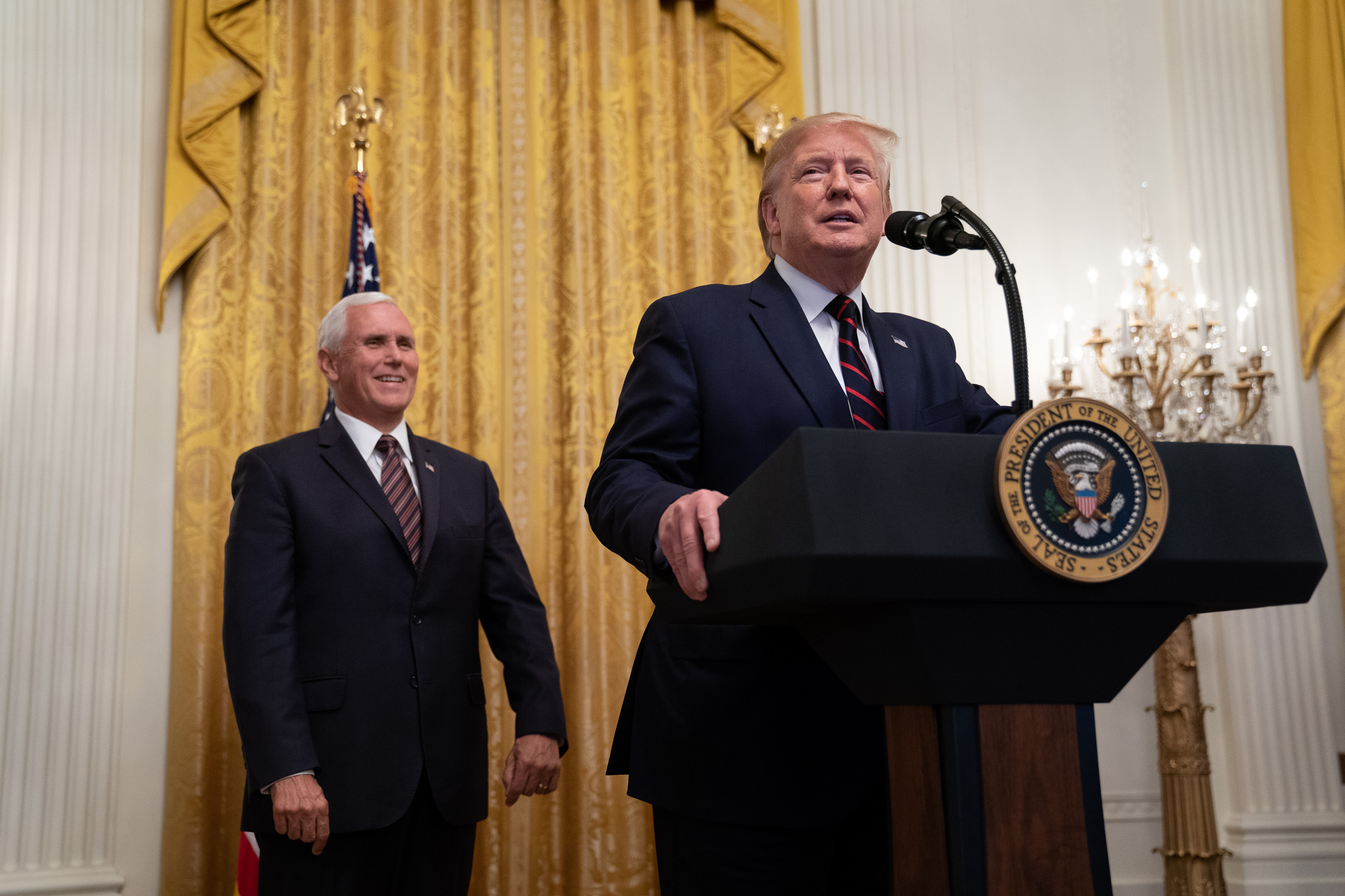 President Donald J. Trump, joined by Vice President Mike Pence, addresses his remarks at the Hispanic Heritage Month Reception Friday evening, Sept. 27, 2019, in the East Room of the White House. (Official White House Photo by Joyce N. Boghosian)